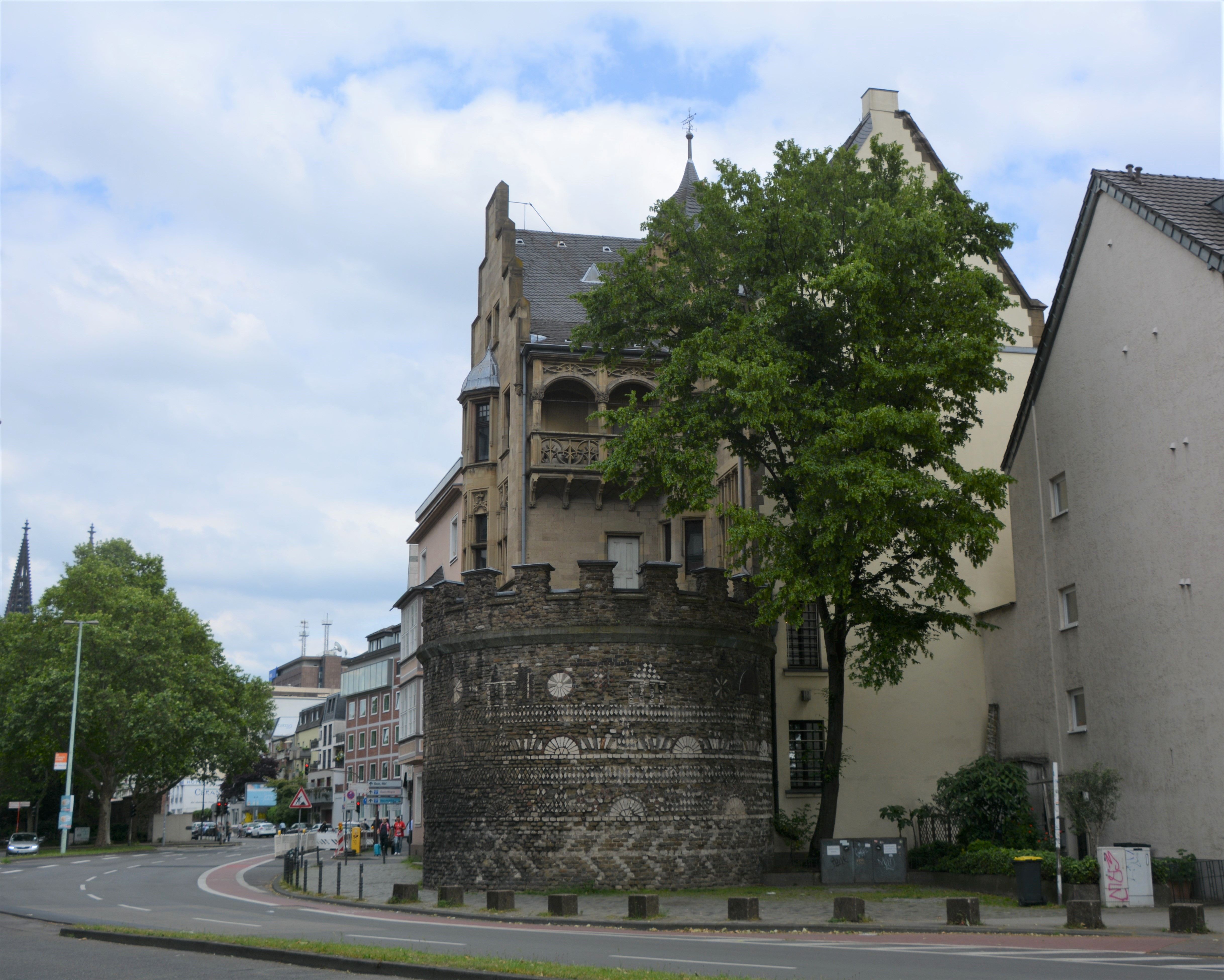 Römerturm Köln